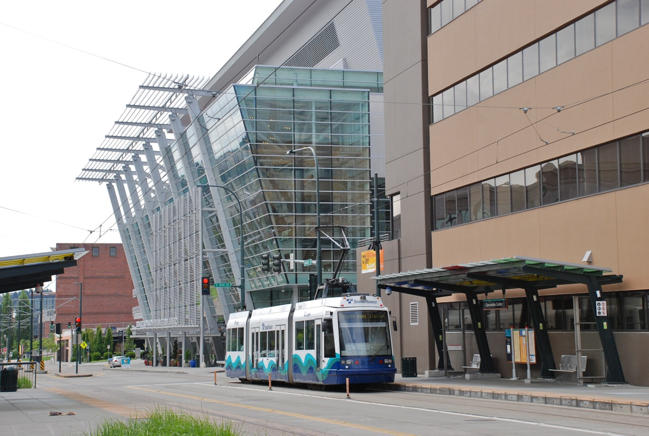 Tacoma Link streetcar 1003 southbound on Commerce Street at 15th Street, leaving the "Convention Center" Link station and about to pass the Greater Tacoma Convention and Trade Center.